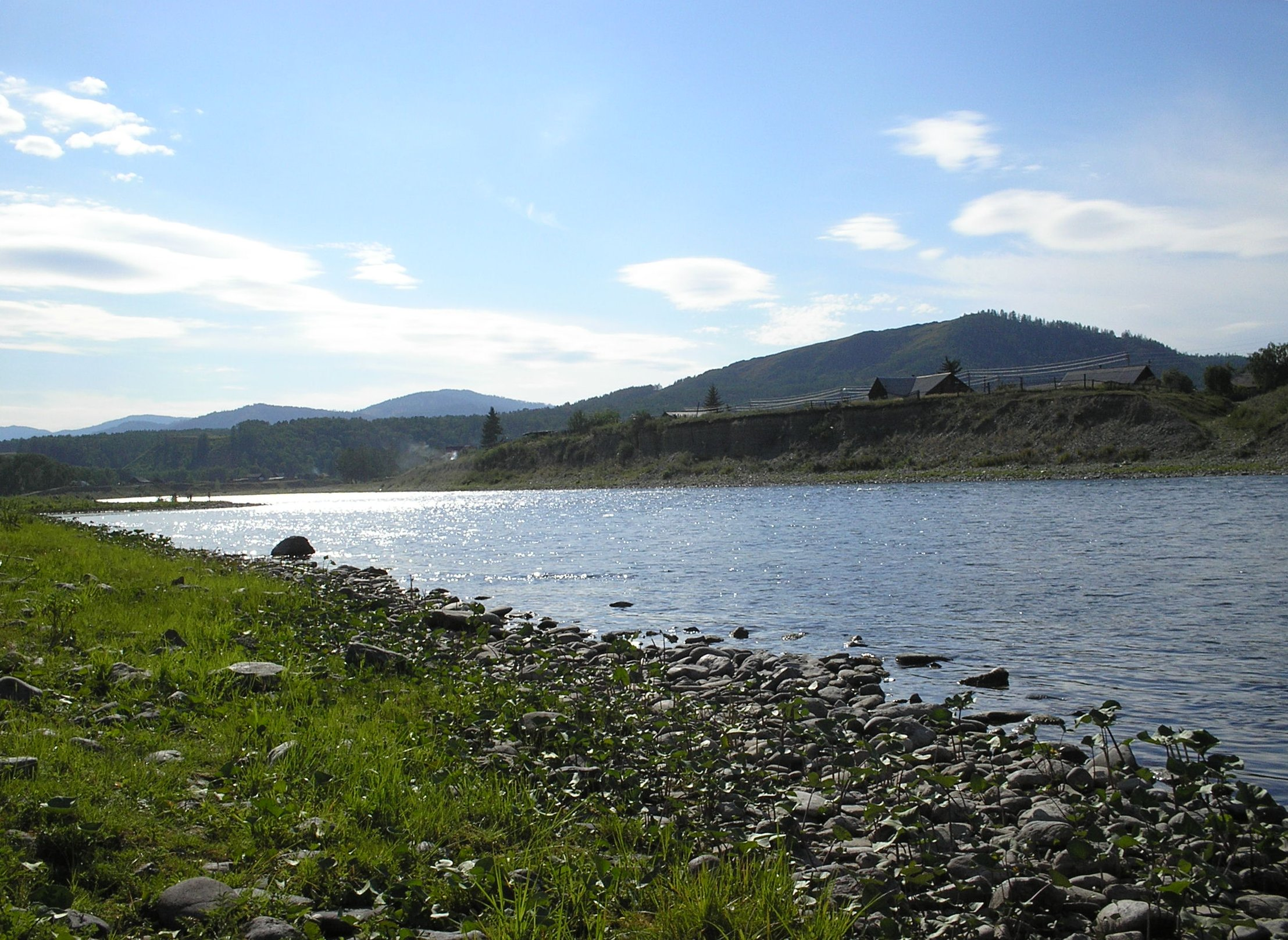 Koksa River.